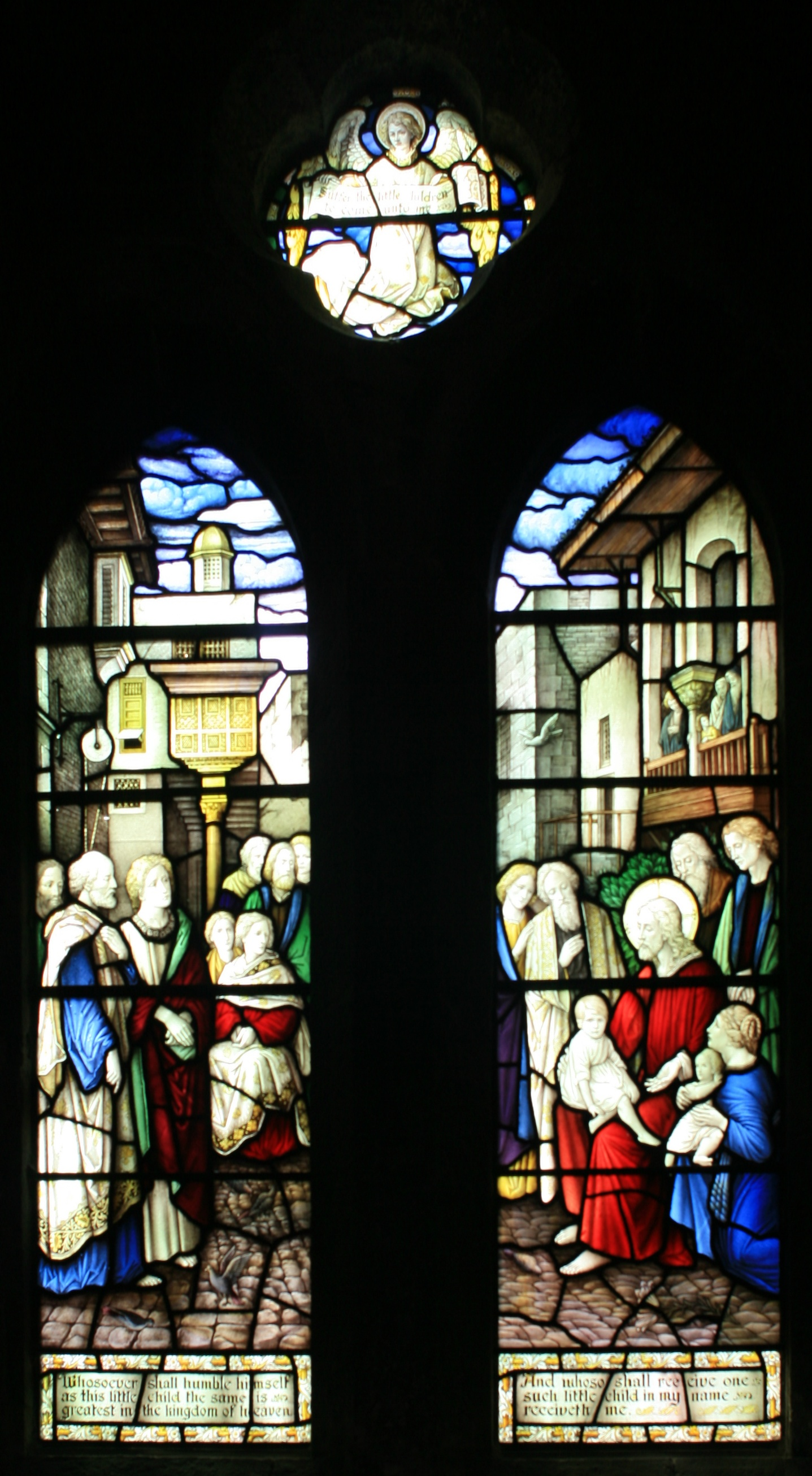 Kilkenny, Co. Kilkenny, Ireland 19th-century stained glass window in the southern aisle of St. Canice's cathedral. (The original medieval window was destroyed by Cromwell's soldiers in 1650.) This window depicts a scene described in Mathew 18:5. The inscription of the left window cites Matthew 18:4: Whosoever shall humble himself as this little child the same is greatest in the kingdom of heaven. The inscription of the right window cites Matthew 18:5: And whoso shall receive one such little child in my name receiveth me.